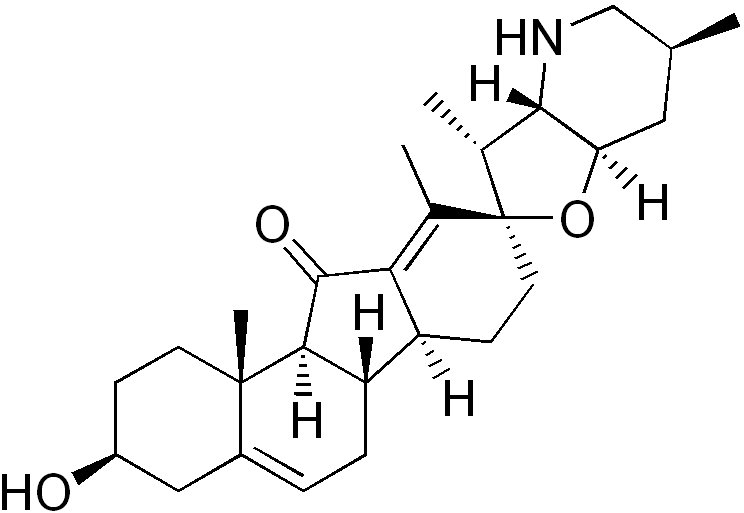 chemical structure of jervine